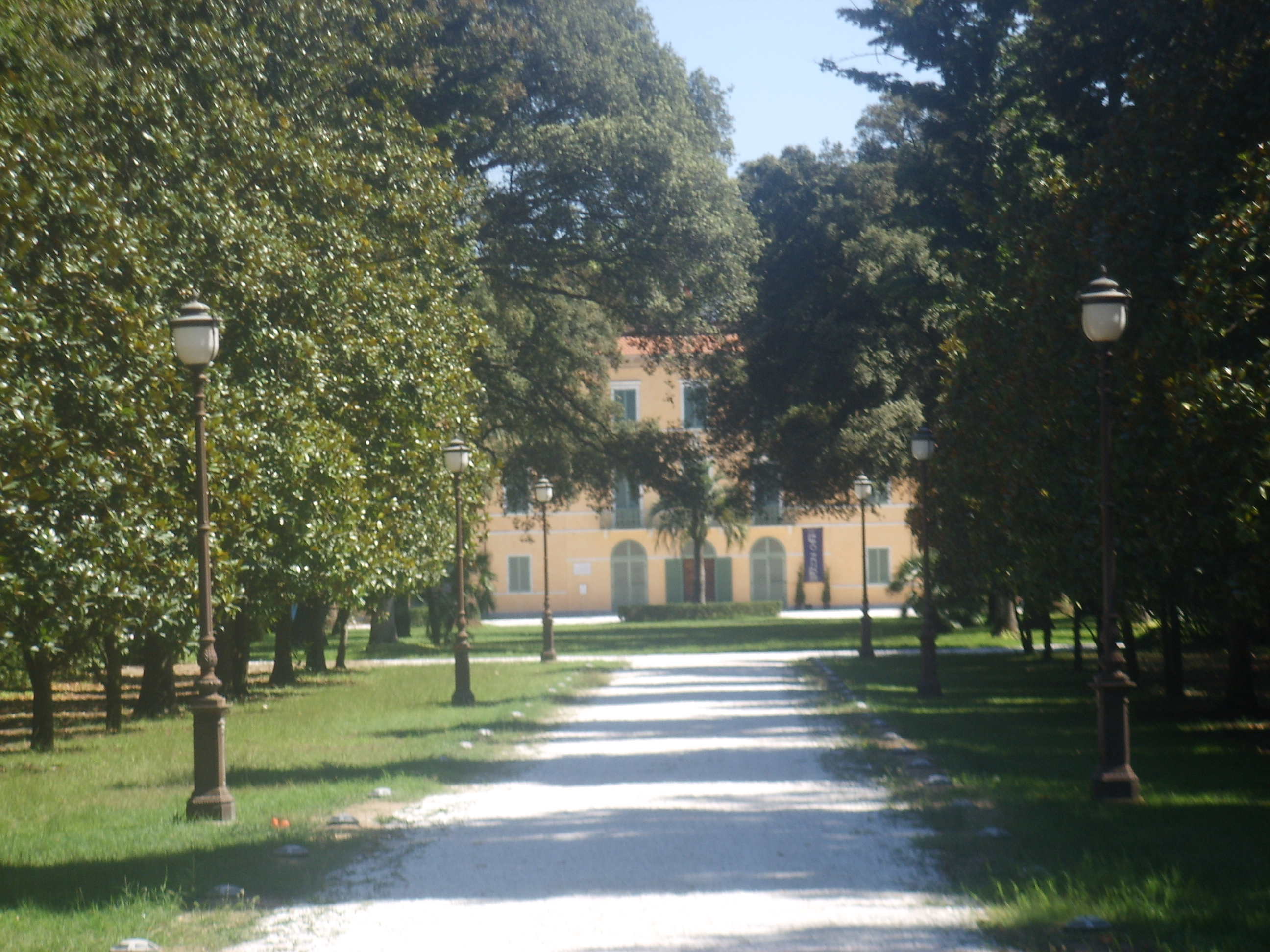 The Villa Borbone in the city of Viareggio, Tuscany, Italy.